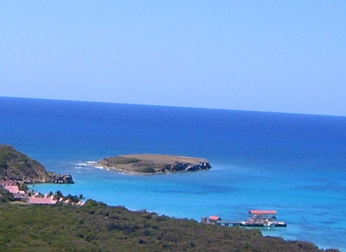 Isla Morrillito vista mirando al sur desde el Faro de Caja de Muerto, Ponce, Puerto Rico